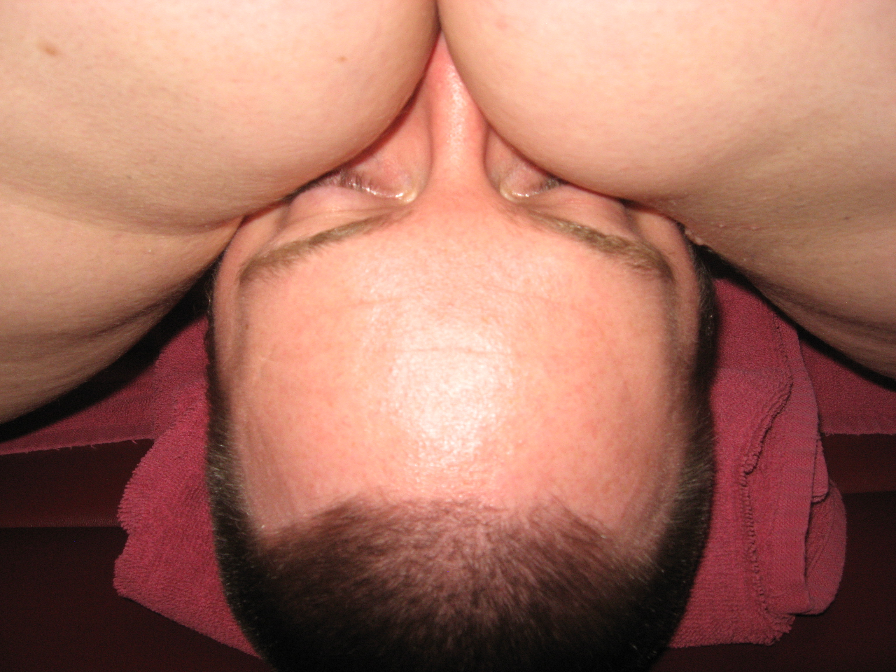 A man performing anilingus on a woman sitting on him